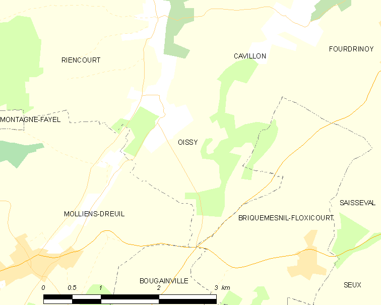 Map of French municipality Oissy